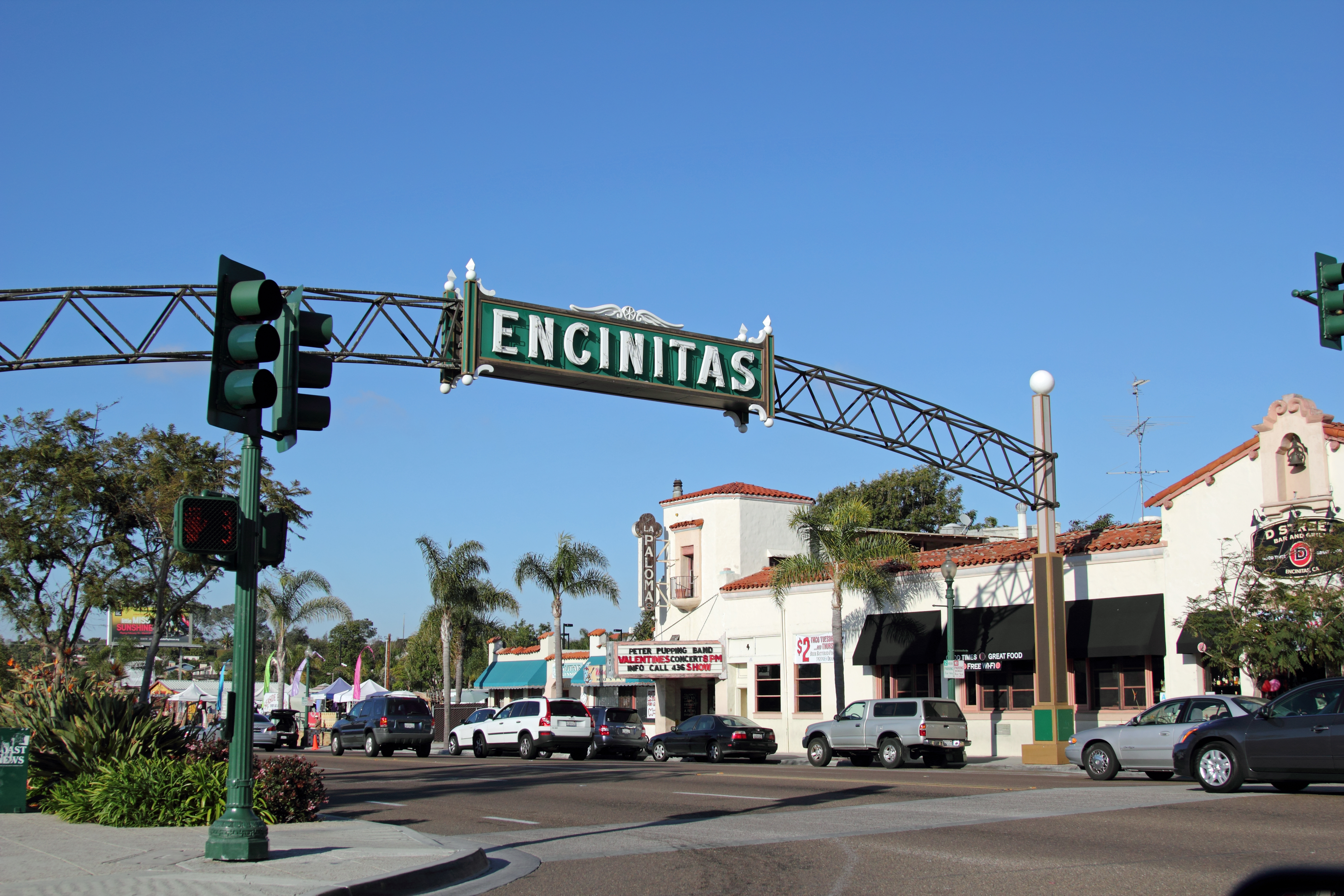 Downtown Encinitas, California, USA. Pictured is the Welcome Arch and the La Paloma Theater.